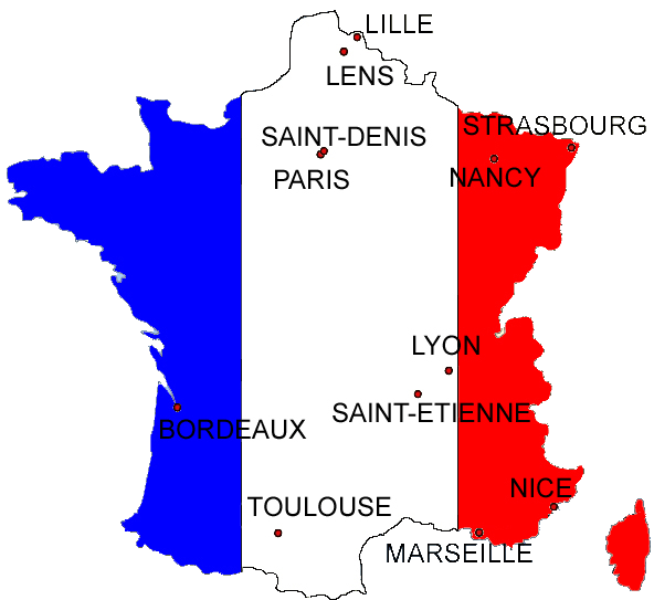 UEFA EURO 2016's Cities map